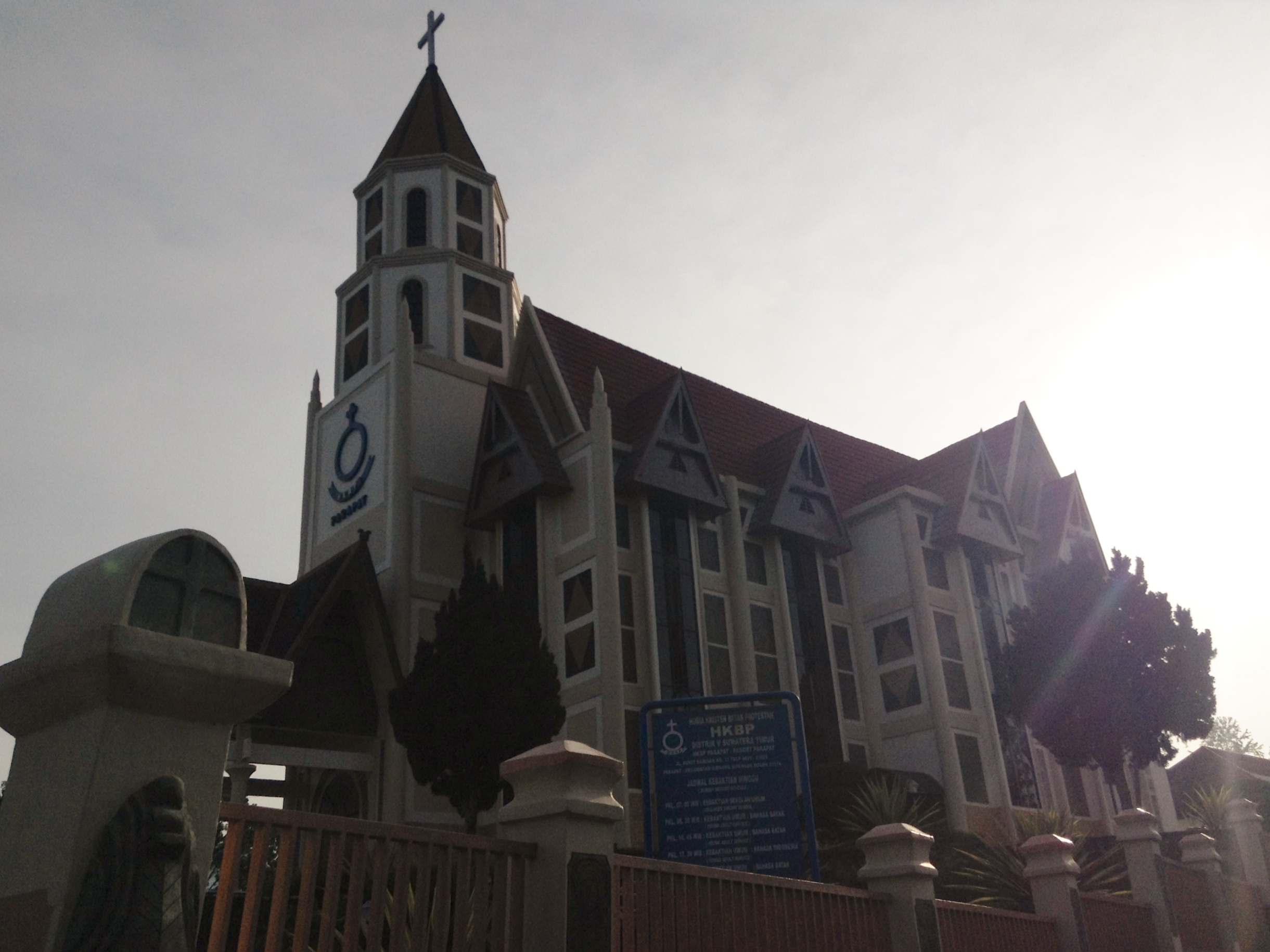 HKBP Church in Parapat, Girsang Sipangan Bolon, Simalungun.